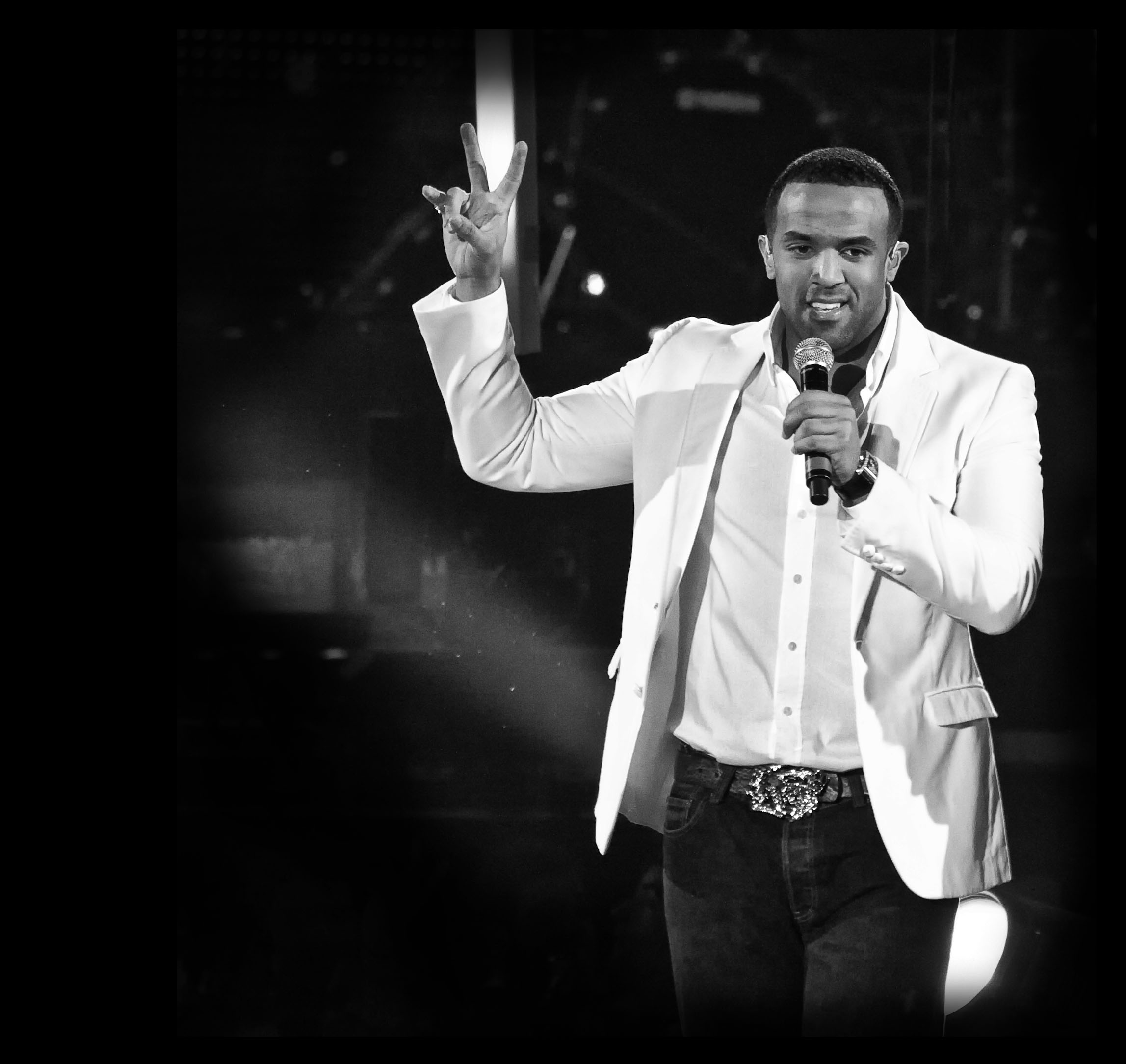 Craig David Premios 40 Principales Palacio de los Deportes 12.12.08 Madrid Spain